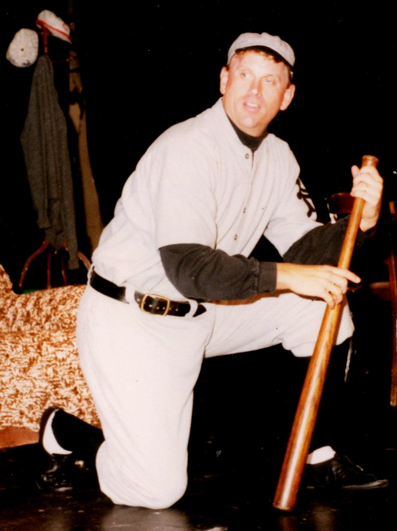 Eddie Frierson performs as Christy Mathewson in the play "Matty" on stage at Keystone College in Factoryville, Pa.